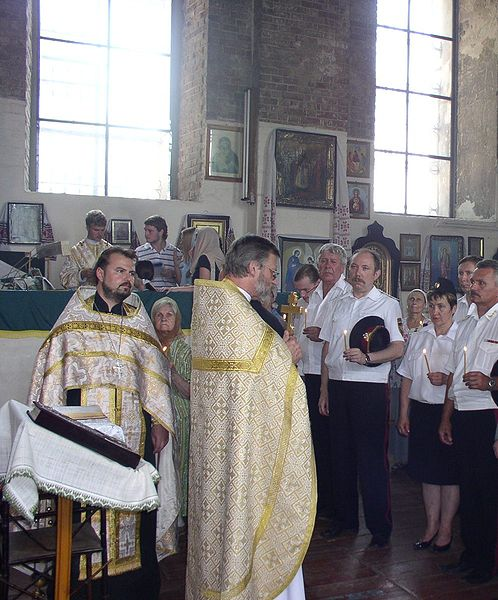 Molitva za Mazepu v Kharkove